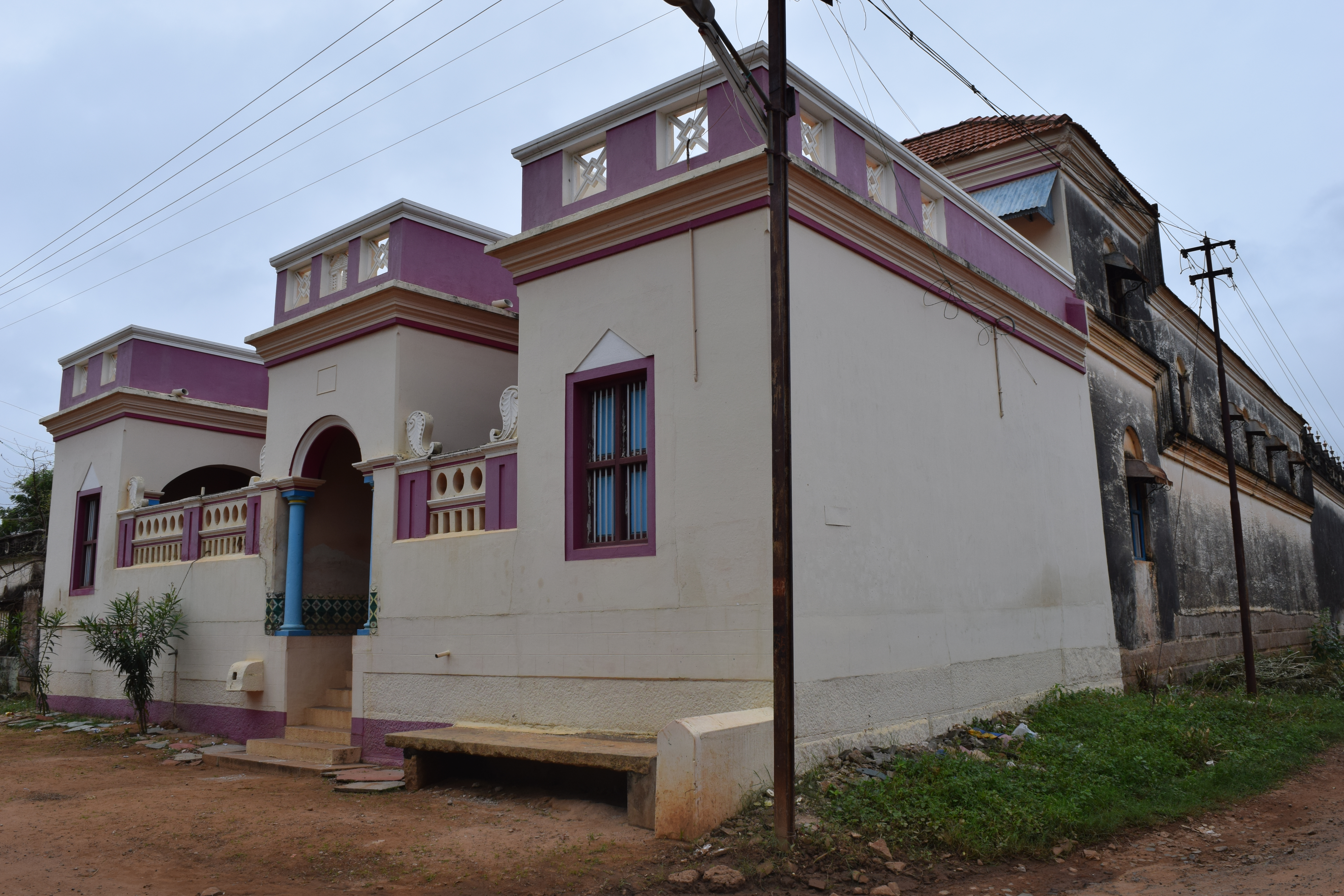 Mahibalanpatti is one of the Chettinadu villages.